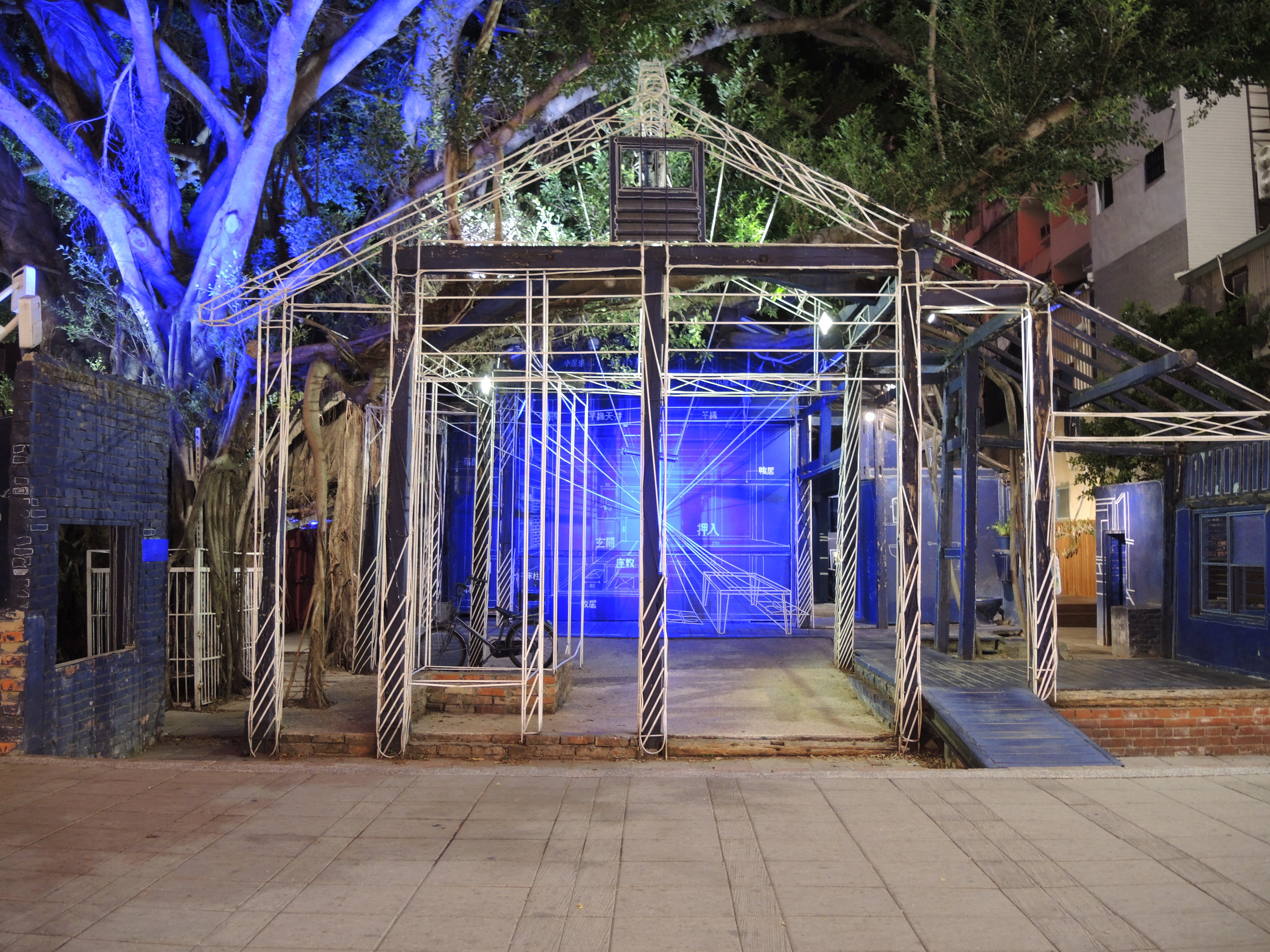 Front Door